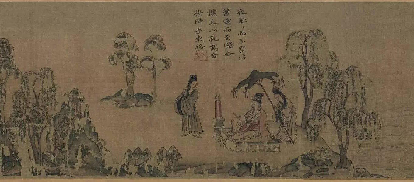 Goddess_of_luo_shui